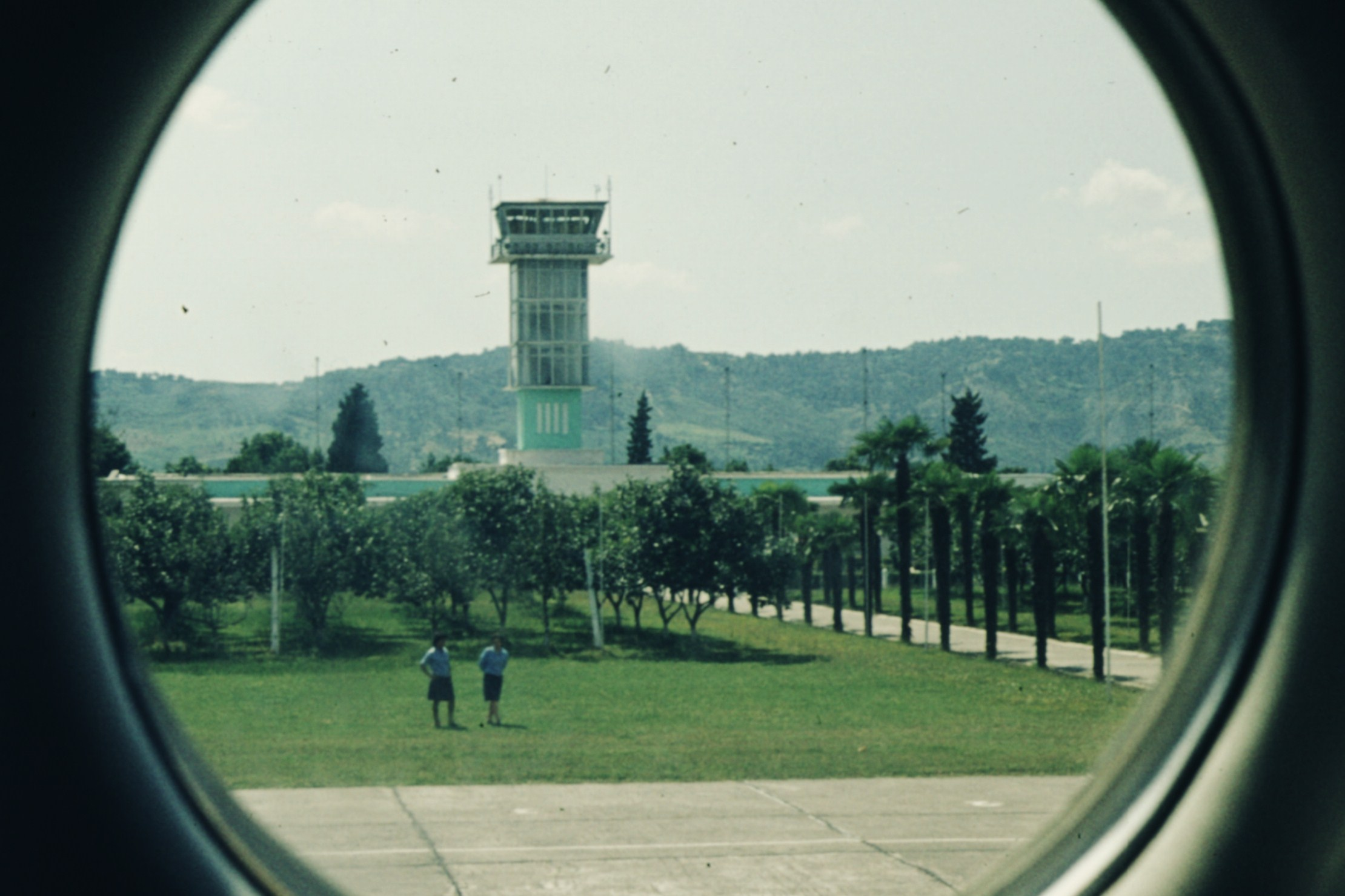 Tirana Airport 1978